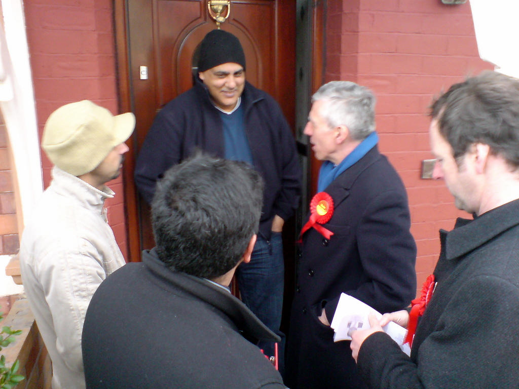 Jack Straw on the doorstep with local councillors in Corporation Park ward, Blackburn